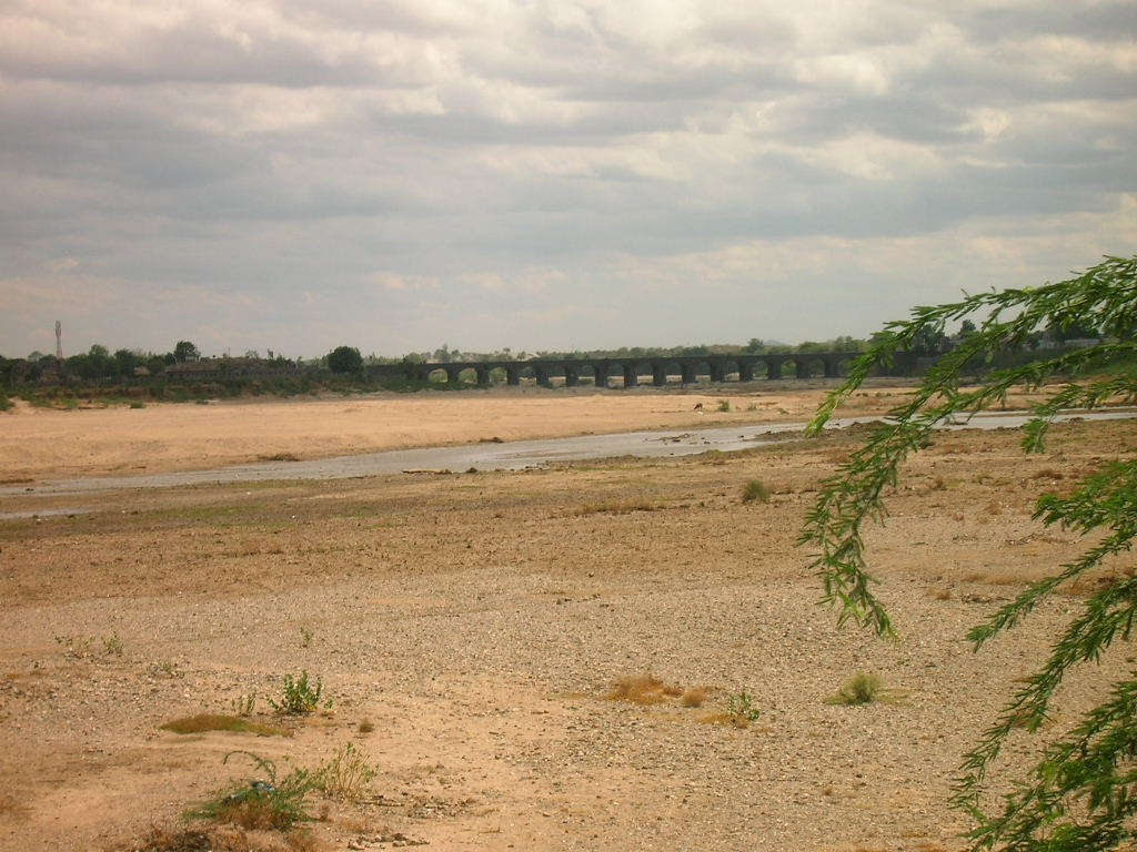 West banas